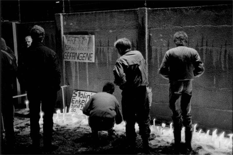 Montagsdemonstration vor Bautzen II, 4. Dezember 1989